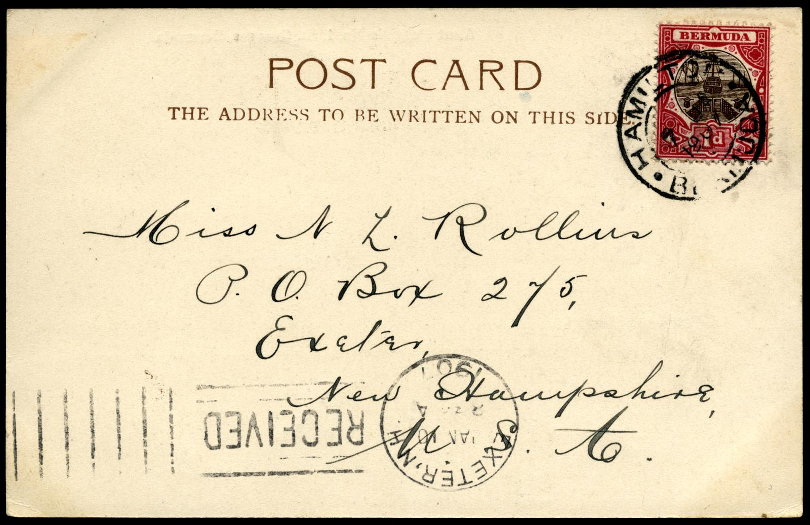 Address side of Bermuda postcard of 1907